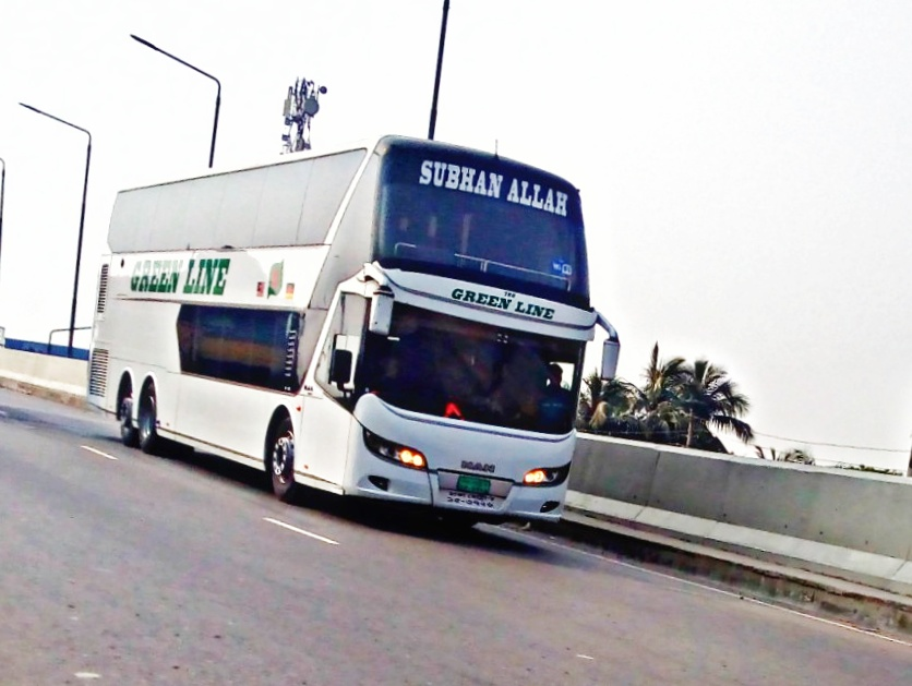 Bangladeshi Green line paribahan MAN branded double decker bus in Dhaka-Chittagong highway